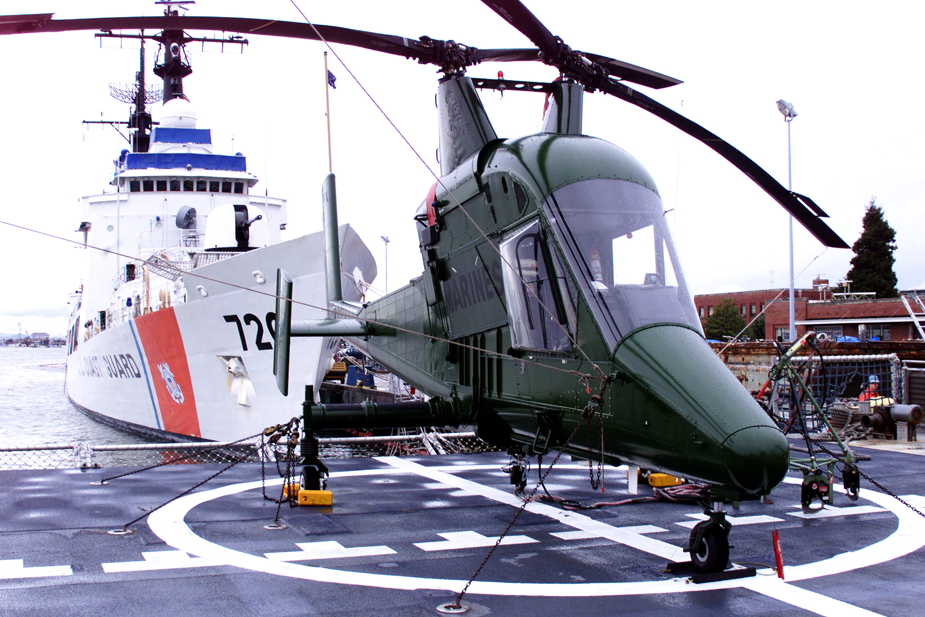 A Kaman K-1200 "K-MAX" helicopter on the flightdeck of the "Slice Boat" (Prototype) at Coast Guard Island in Oakland, California (USA), during its participation in "Fleet Battle Experiment Echo" and exercise "Urban Warrior '99" on 19 March 1999. The U.S. Coast Guard high endurance cutter, USCGC Sherman (WHEC-720) is visible in the background. The Kaman "K-MAX" was tested for resupplying ships at sea. Named "Broad-area Unmanned Responsive Resupply Operations (BURRO)" it was used in conjunction with the Slice Multi-Task Boat (only flight deck is seen) for providing over the horizon sea-based logistics.